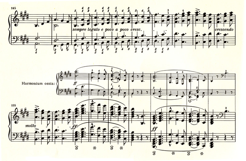 example of an 'ossia'